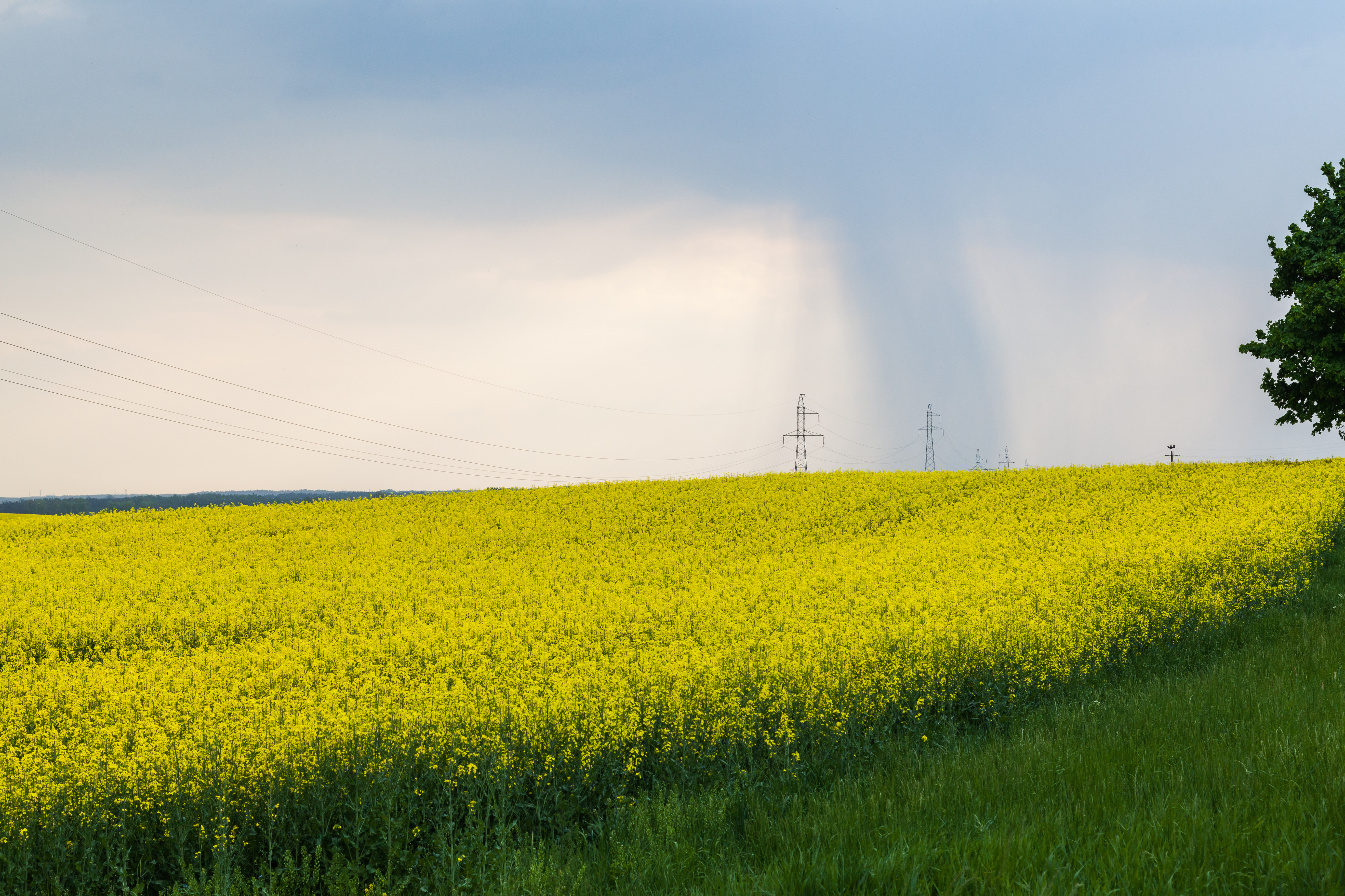 Colza field (Brassica napus), Malbork, Poland